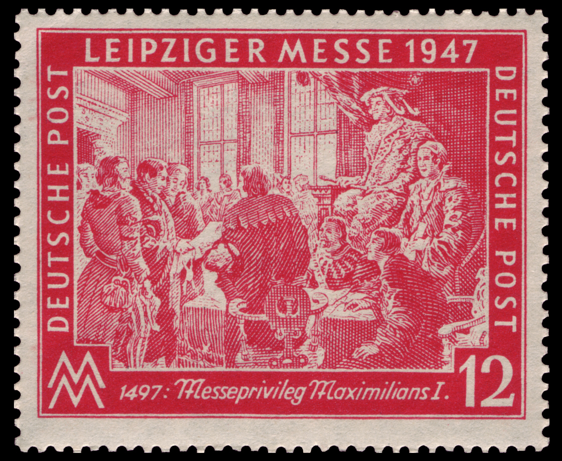 series of stamps of the allied occupation, Leipzig Fall Trade Fair 1947 Graphics by Gruner Ausgabepreis: 12 Pfennig First Day of Issue / Erstausgabetag: 2. September 1947 Michel-Katalog-Nr: 965 (Alliierte Besetzung)